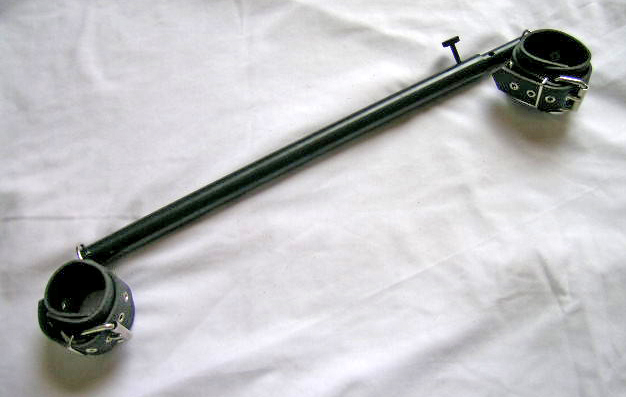 Spreader bar with cuffs